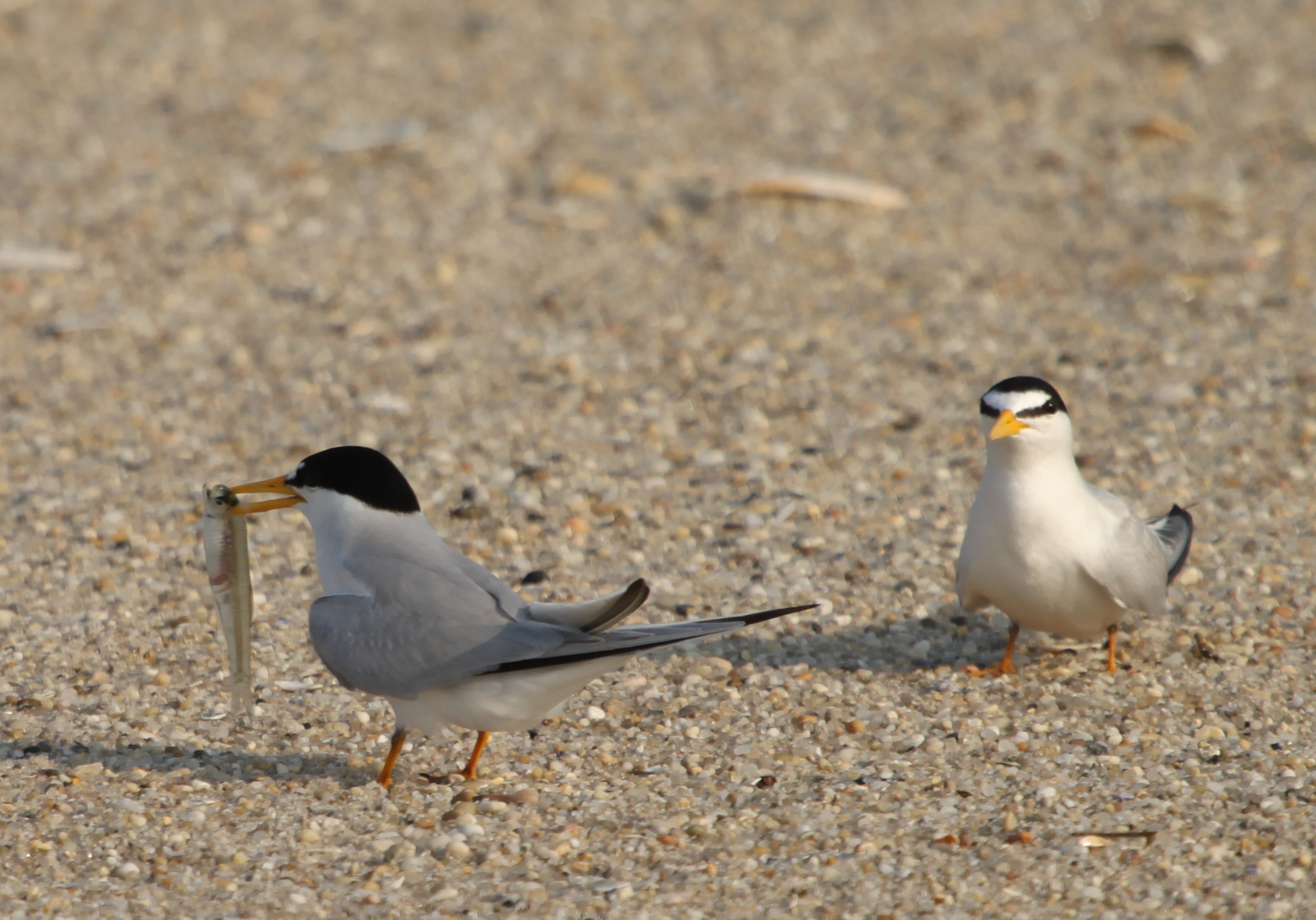 Least Terns on the Atlantic coast, New Jersey, USA. One of them has got a fish in its beak.